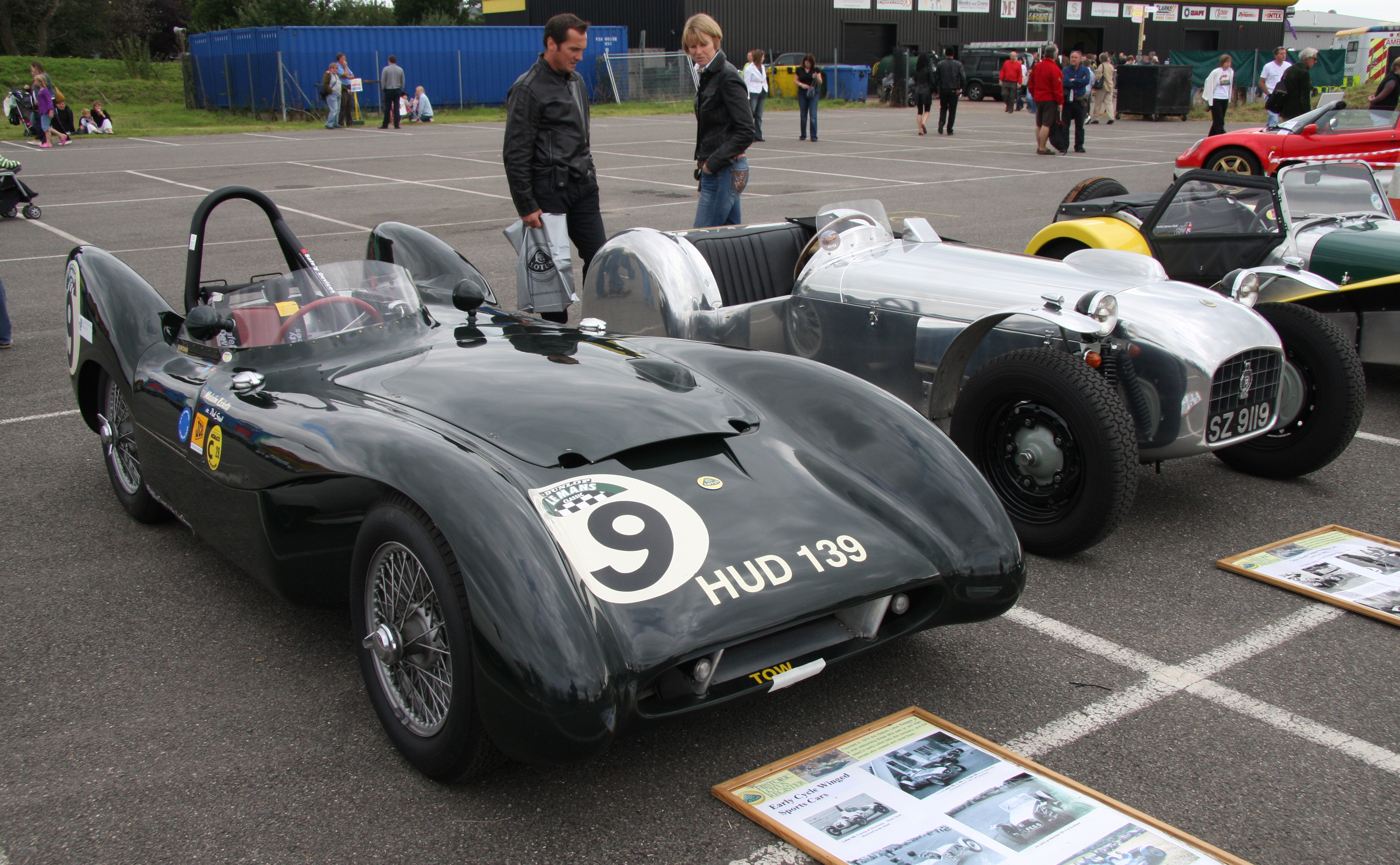 1955 Lotus Mk 9 and Lotus 6 at Lotus 60th Celebration